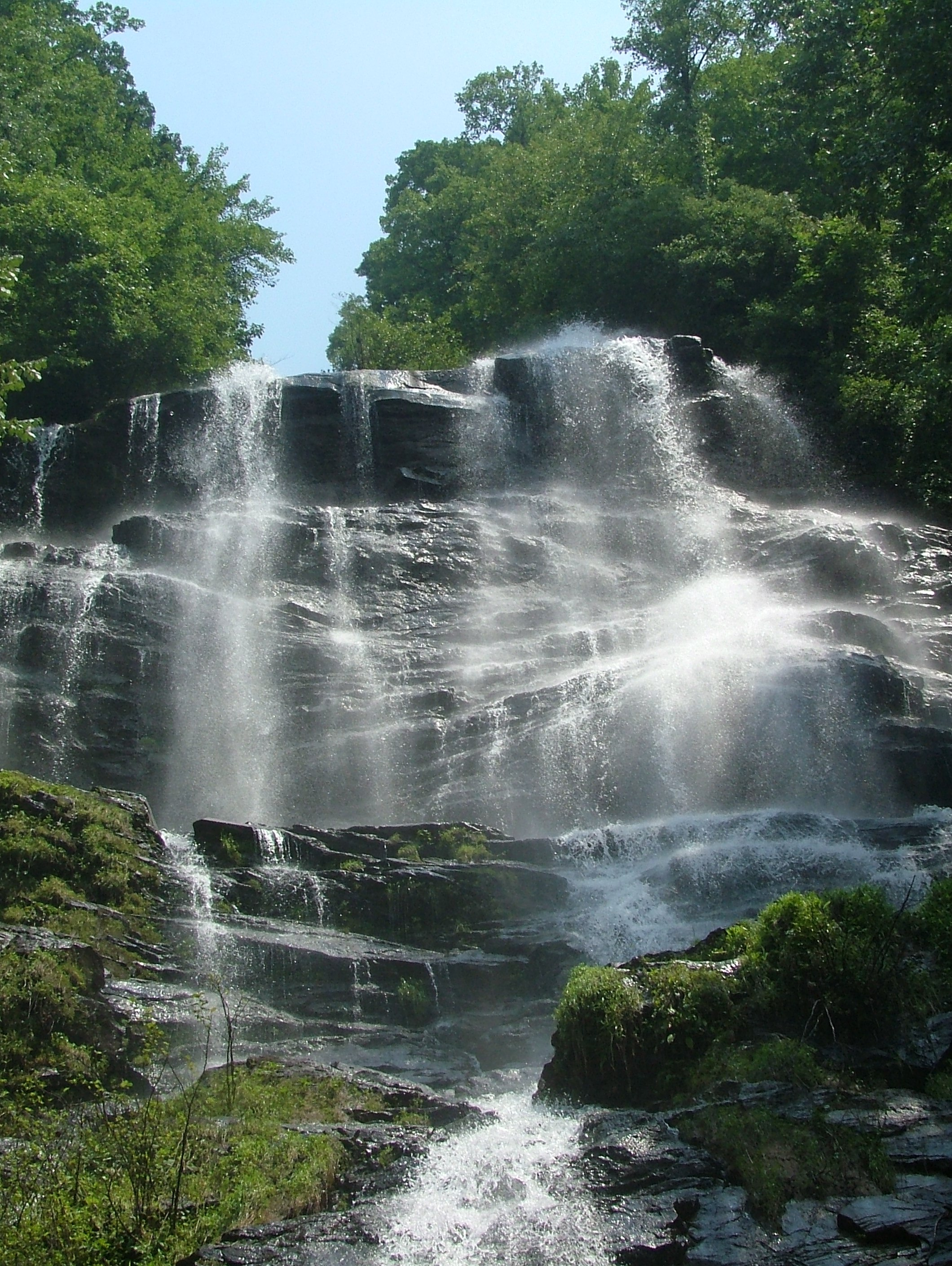 Amicalola Falls near Dawsonville, GA, portrait mode picture